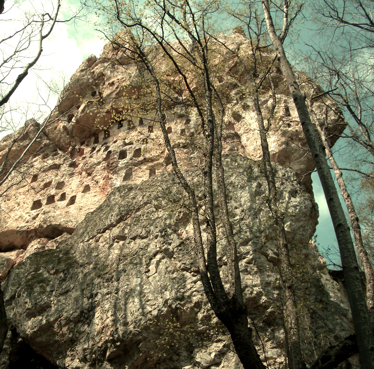 Глухите камъни друг поглед